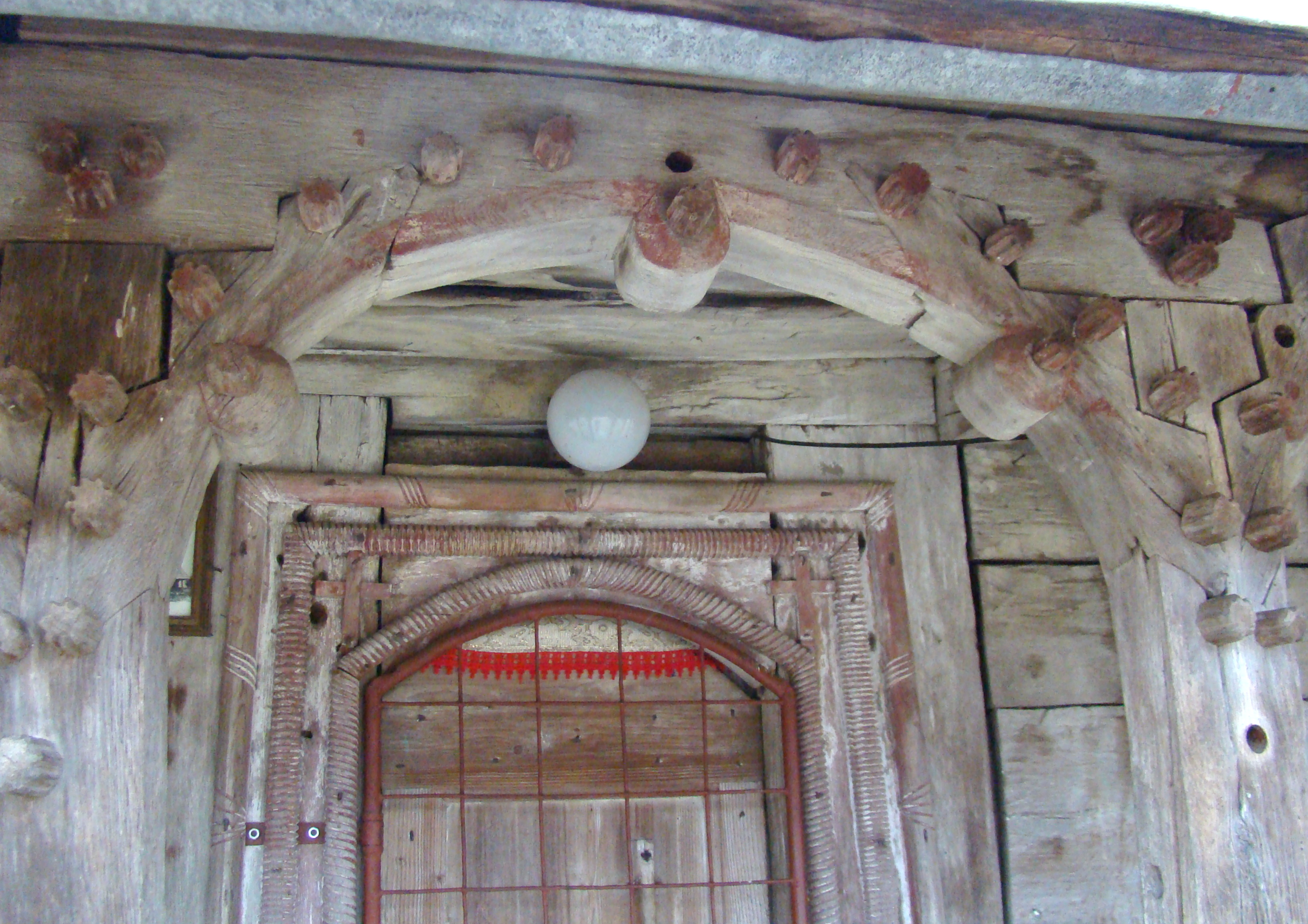 Wooden church in Romita, SălajRomână: Biserica de lemn din Romita